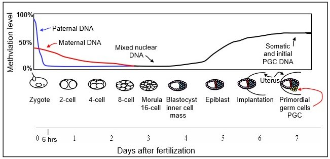 The mouse sperm genome has 80–90% overall methylation of its CpG sites, about 20 million methylated sites. After fertilization, demethylation of the paternal chromosomes is almost completed in 6 hours by an active process, before DNA replication (blue line). The mature oocyte has about 40% methylation of its CpG sites. Demethylation of the maternal chromosomes largely takes place by blockage of the methylating enzymes from acting on maternal-origin DNA and dilution of the methylated maternal DNA during replication (red line). The morula (at the 16 cell stage), has only a small amount of DNA methylation (black line). Methylation begins to increase at 3.5 days after fertilization in the blastocyst and a large wave of methylation then occurs in days 4.5 to 5.5 in the epiblast, going from from12% to 62% methylation, then reaching maximum level after implantation in the uterus. By day seven after fertilization, the newly formed primordial germ cells (PGC) in the implanted embryo segregate from the remaining somatic cells. At this point the PGCs have the same level of methylation as the somatic cells.[1][2]